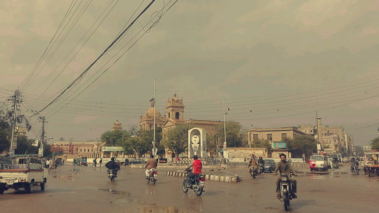 The Chowk near DJ science college showcasing the daily hustle of the people in saddar